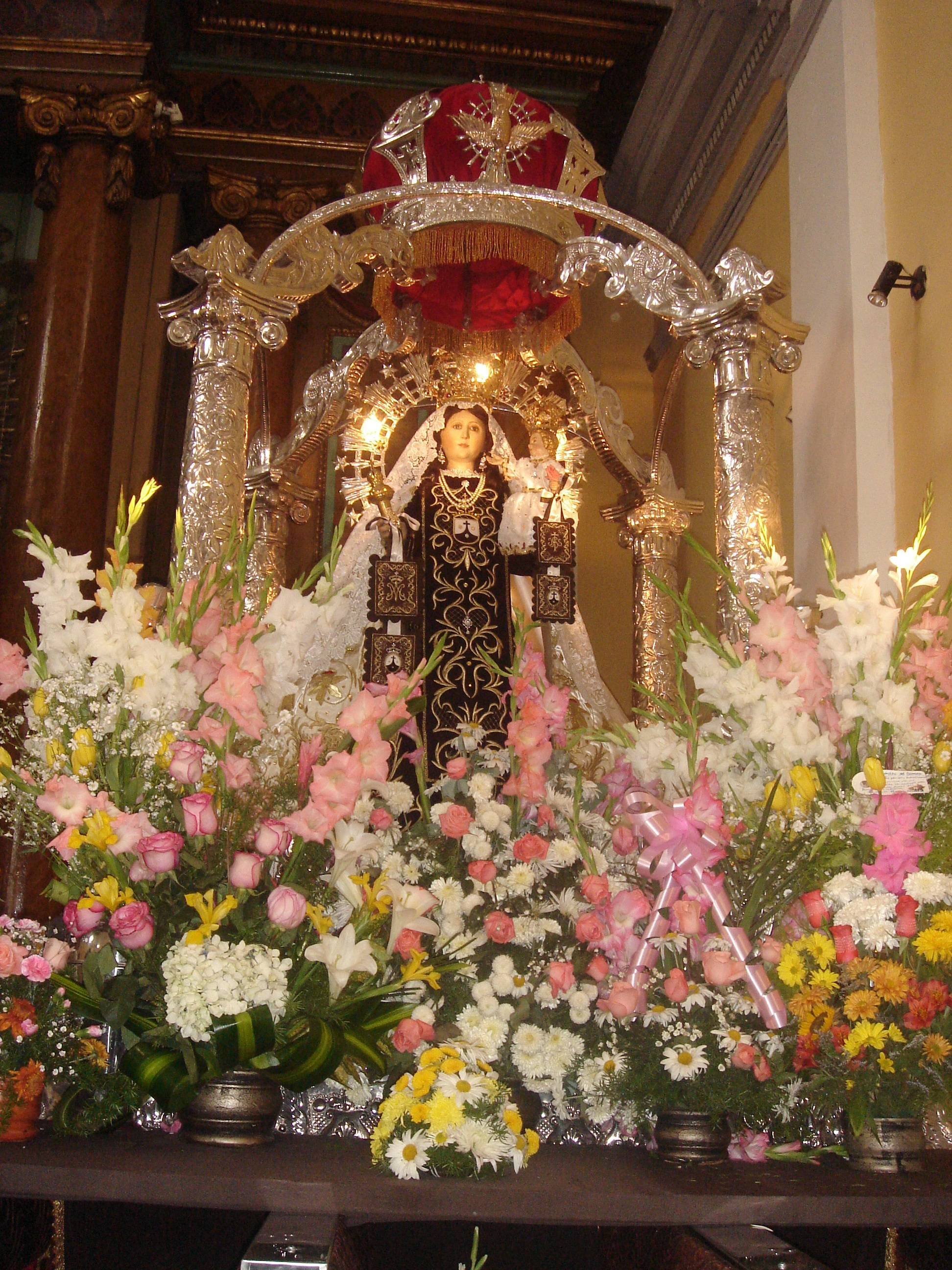 Our Lady of Mountain Carmel in Callao, Peru